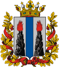 Primorye oblast (Russian empire), coat of arms